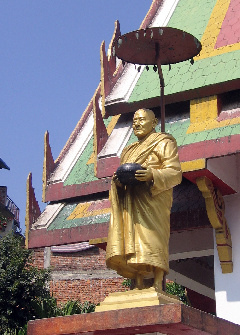 Statue of Nepalese Buddhist monk Pragyananda Mahasthavi (1900-1993) at Shri Kirti Vihara monastery in Kirtipur, Kathmandu